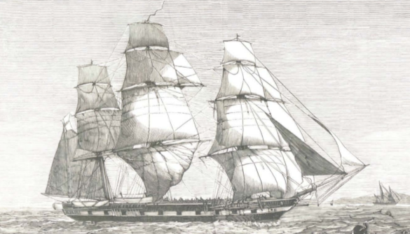 HMS Atalanta